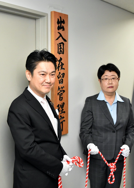 Takashi Yamashita, Minister of Justice, and Shōko Sasaki, Commissioner of the Immigration Services Agency, attended an unveiling ceremony at the Central Government Building No.6 in Chiyoda Ward, Tōkyō Metropolis on April 1, 2019.